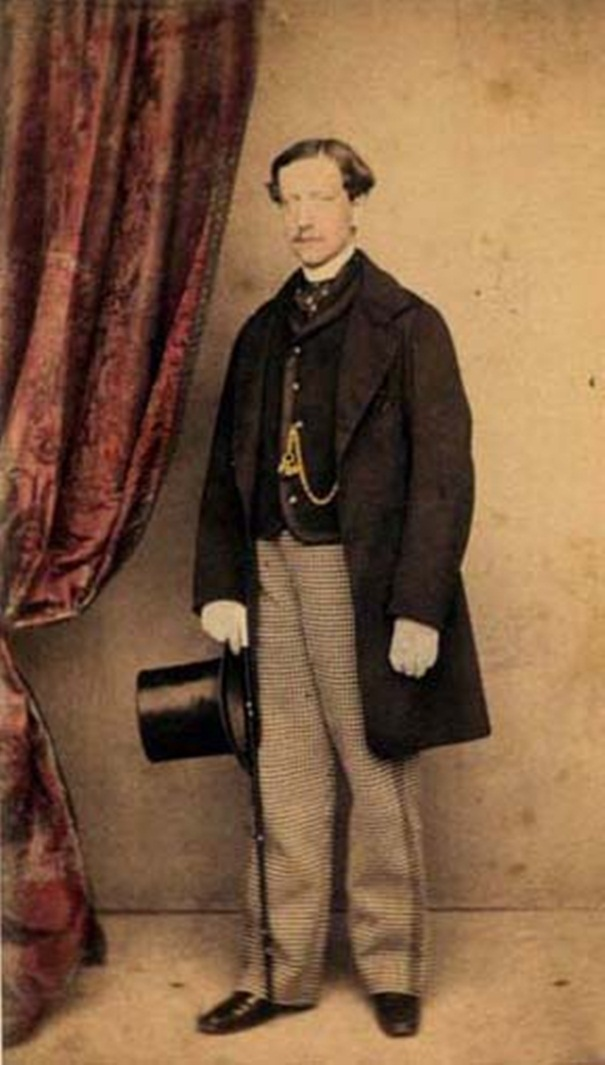 Prince Francis of Bourbon-Two Sicilies (1827-1892), count of Trápani